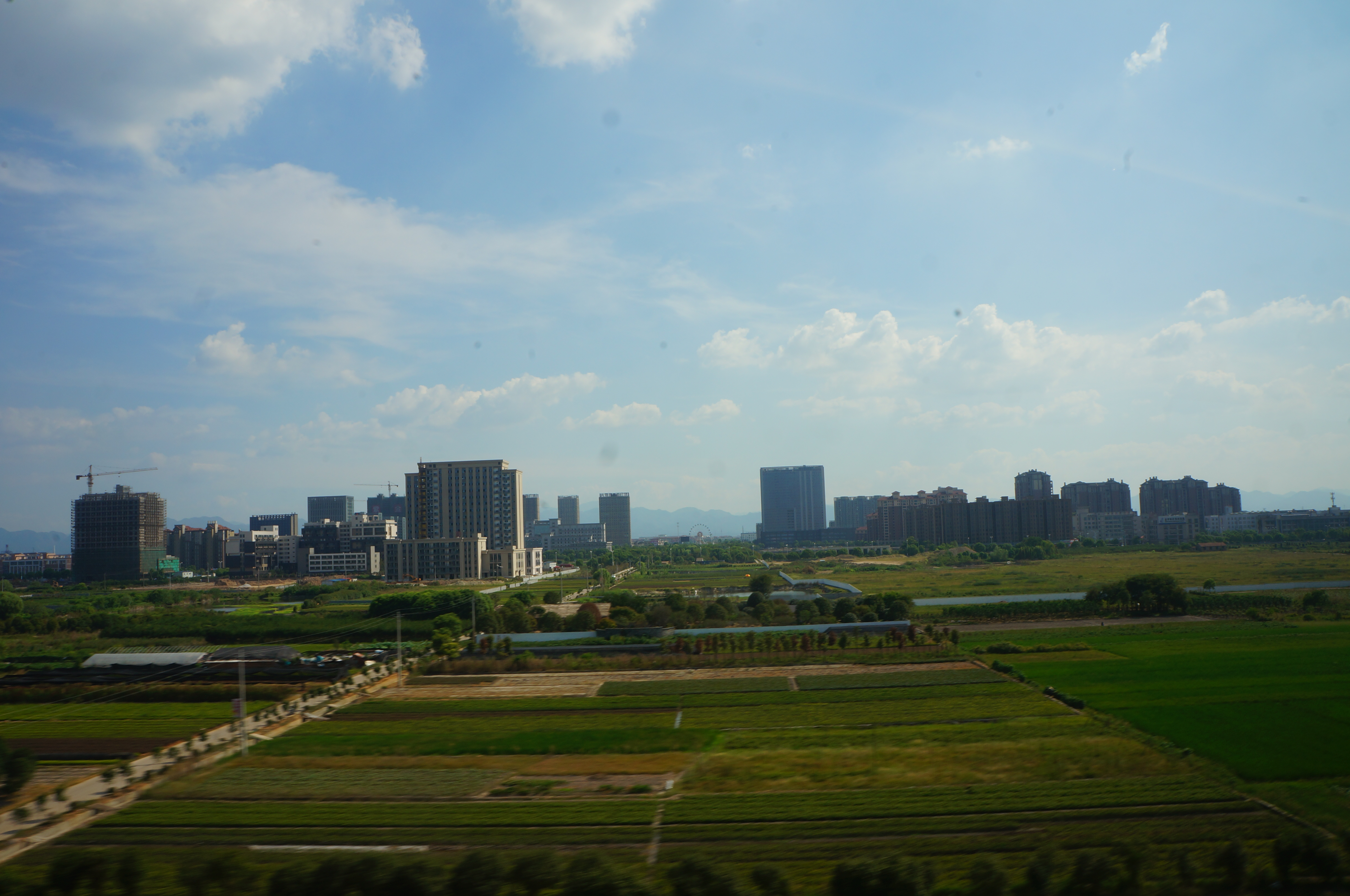 201608 New centre of Wucheng District